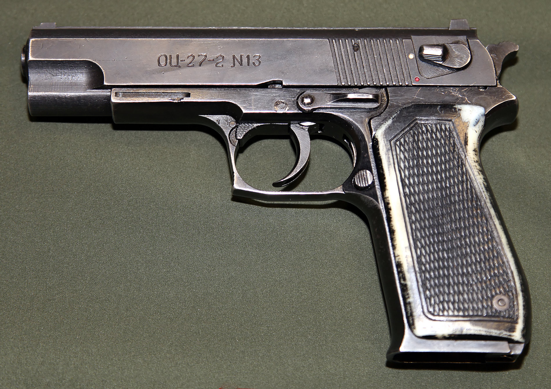 9x19 OTs-27-2 Berdysh pistol